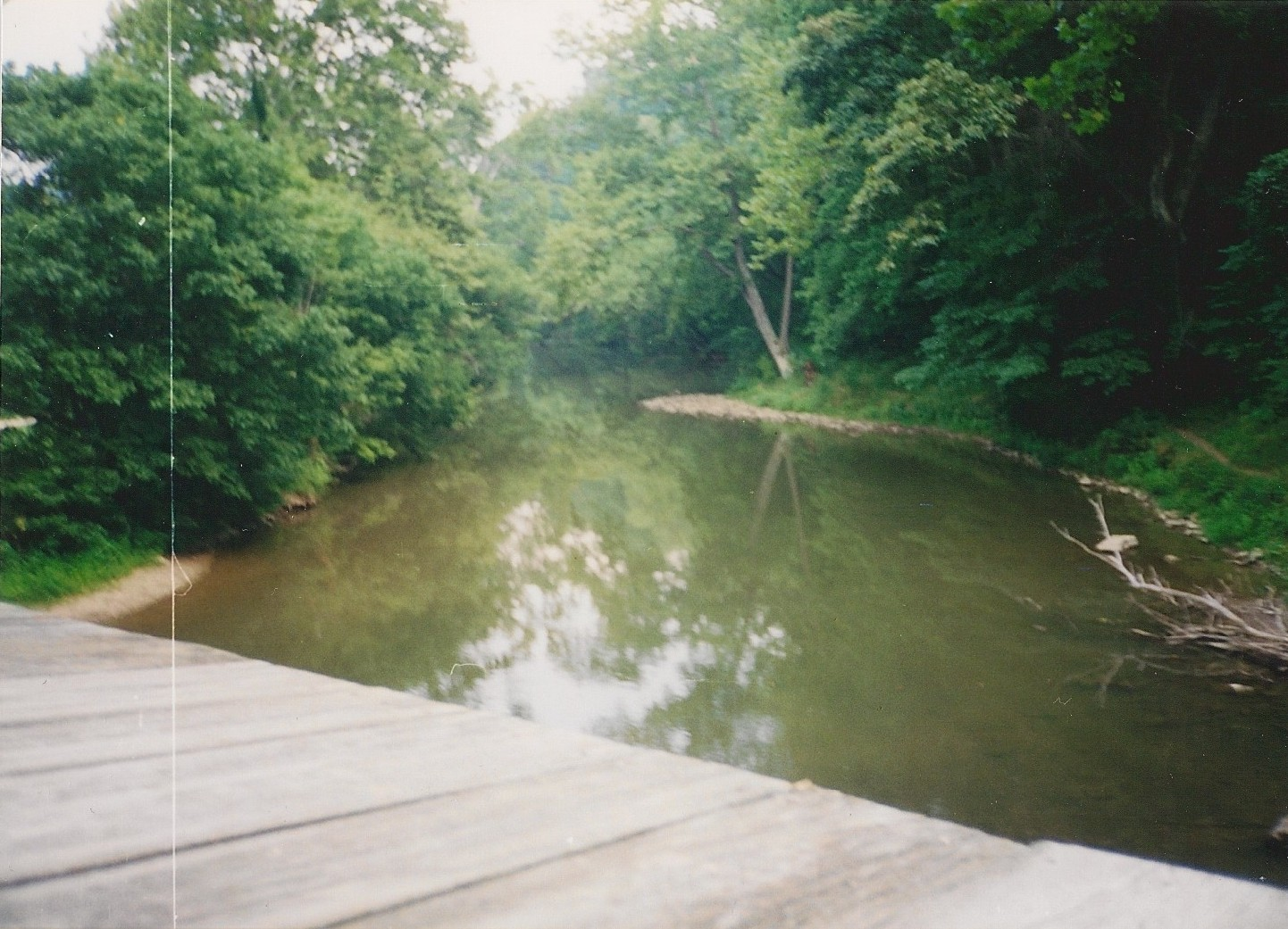 Antietam Creek at the Antietam National Battlefield in Sharpsburg, Maryland (United States).